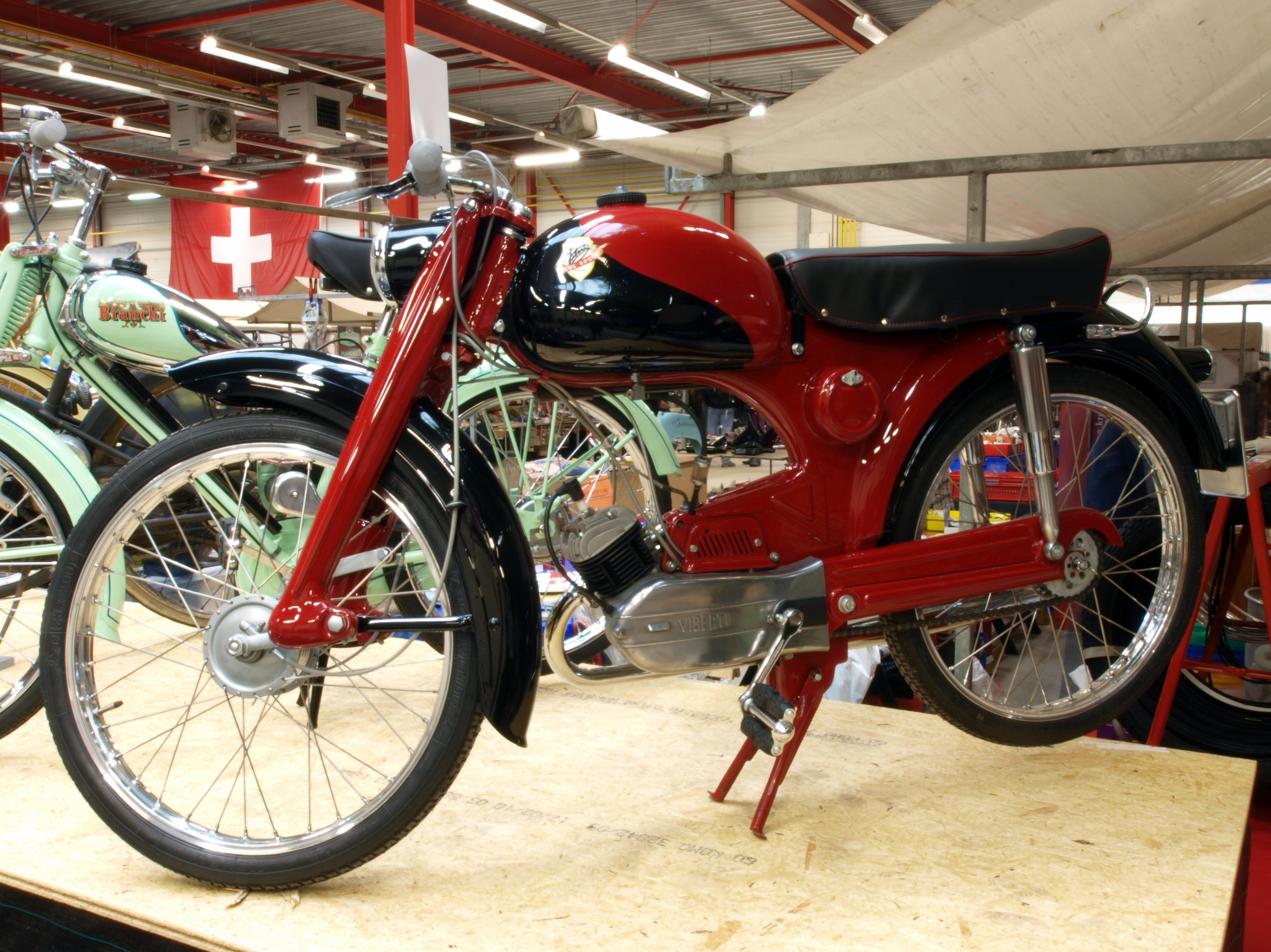 Photographed at the Bromfietsshow Bollenstreek 2010, The Netherlands.